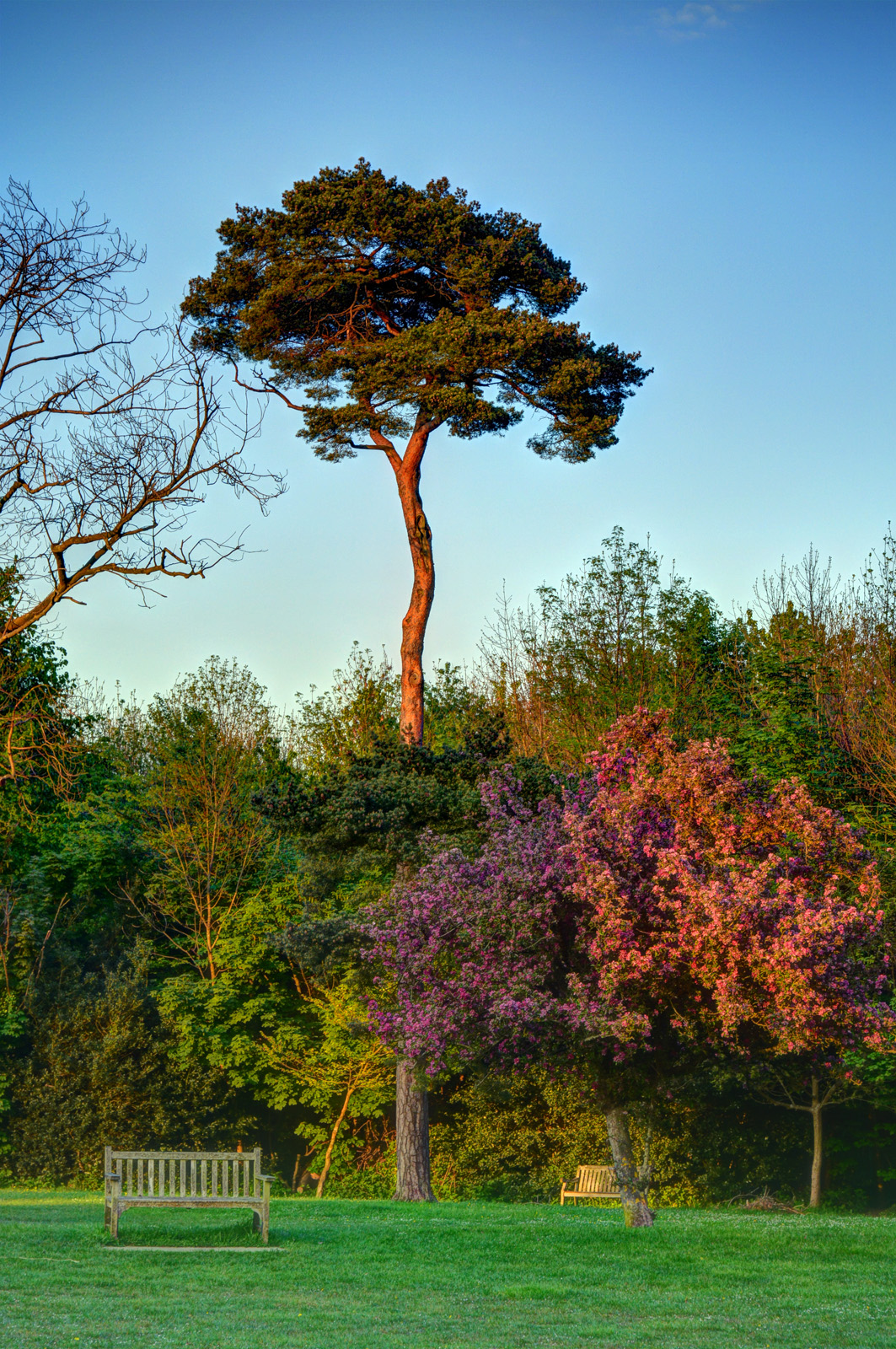 Evening sun on Oaks Park, London Borough of Sutton. (CC-by-SA - anyone can freely use this size file anywhere, provided accompanied by the credit: Photo by George Rex.)